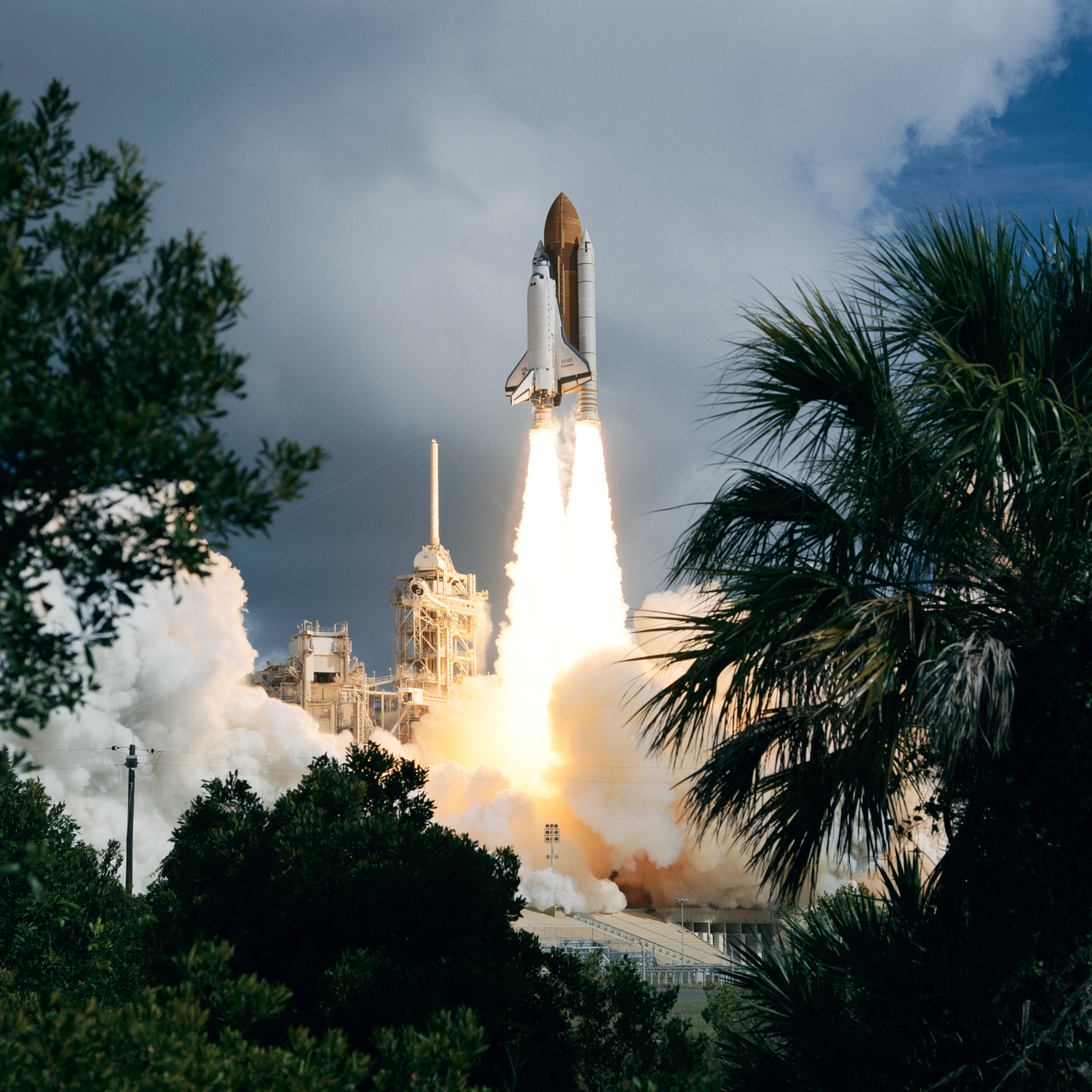 STS-57 Endeavour clears the fixed service structure tower and soars into a cloudy morning sky after liftoff from Kennedy Space Center. Exhaust plumes billow from the solid rocket boosters on either side of the external tank and cover the launch pad below in a cloud. In the foreground Florida vegetation frame the launch scene.